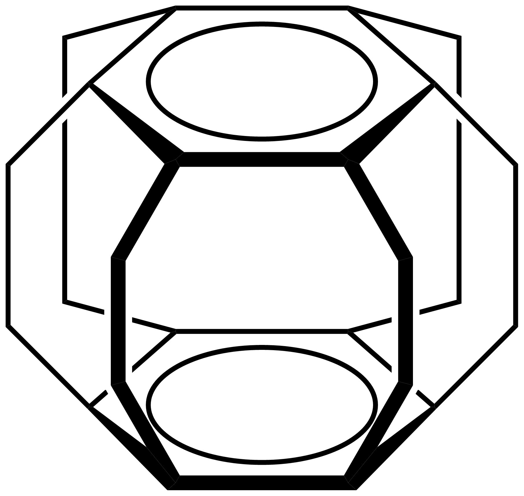 Chemical structure of [2_6](1,2,3,4,5,6)cyclophane (superphane)